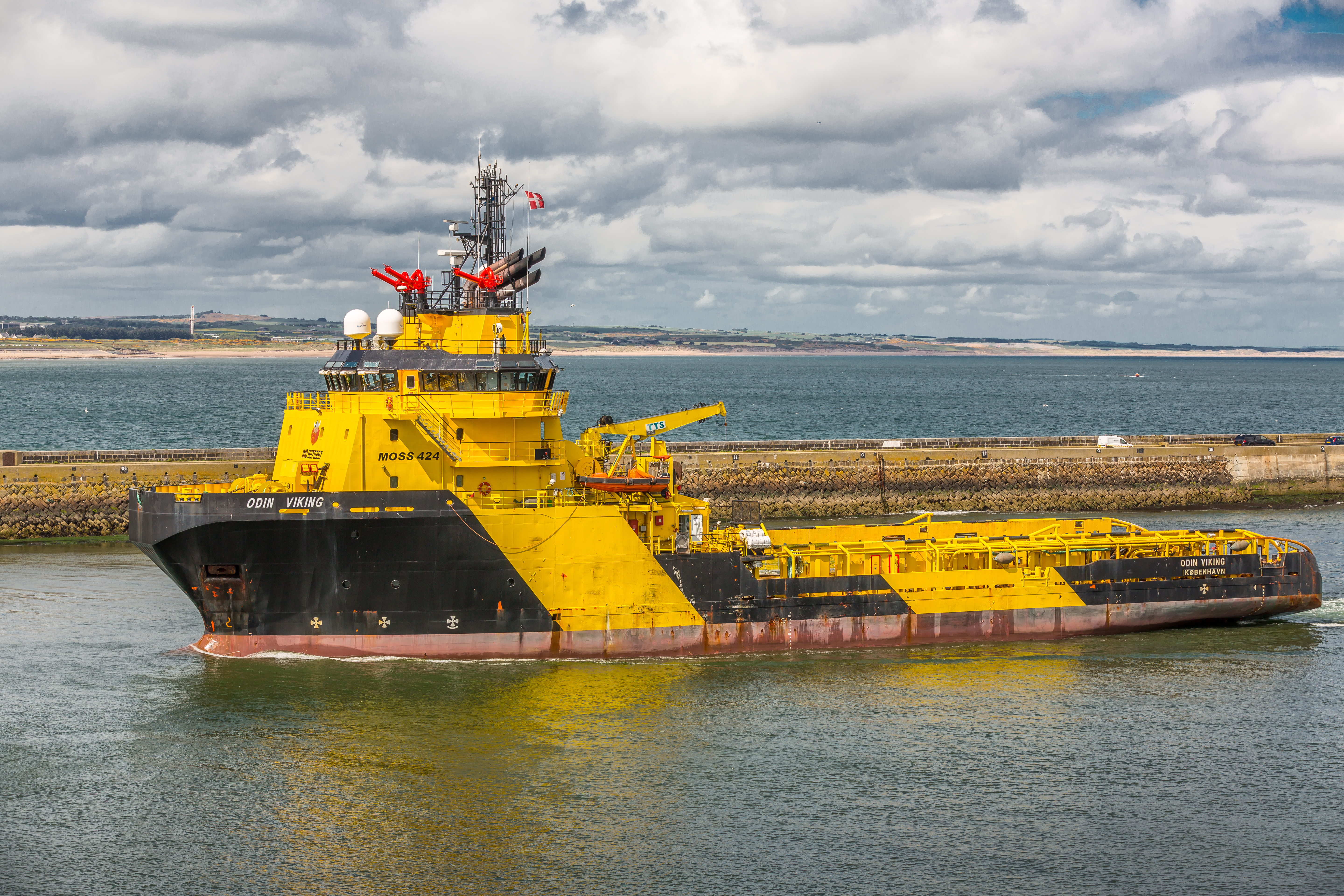 IMO: 9270397 MMSI: 219400000 Call Sign: OYSO2 Flag: Denmark (DK) AIS Type: Tug/Firefighting Vessel Gross Tonnage: 2725 Deadweight: 2870 t Length × Breadth: 74.2m × 16.92m Year Built: 2003